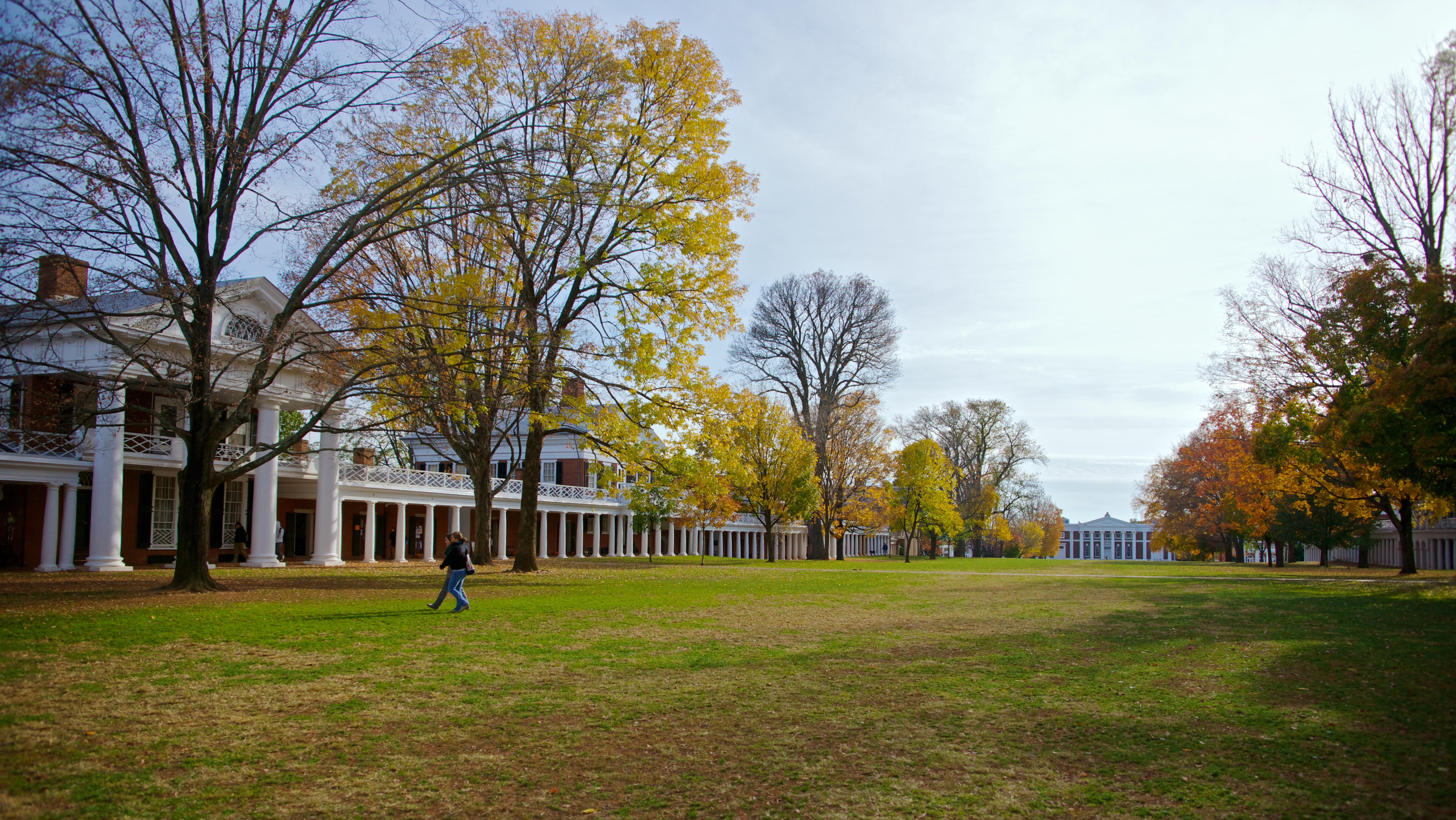 The Lawn of the University of Virginia, USA, looking south onto Old Cabell Hall